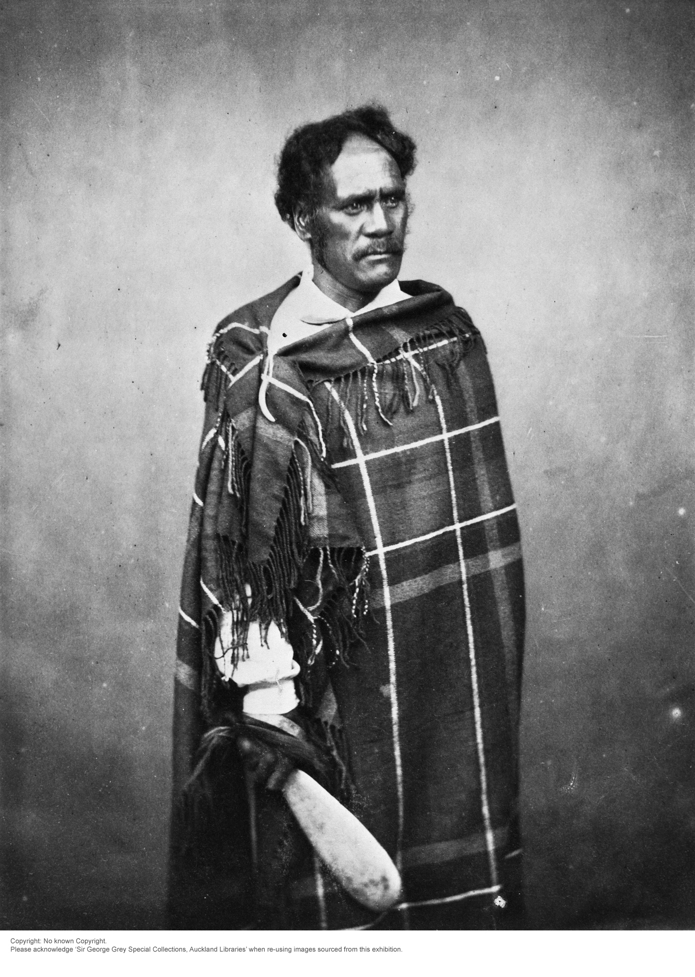 Ihāia Te Kirikūmara. Otaraua, Te Āti Awa. [?-1873] Photograph 7-A5892. Copyright: No known Copyright. 'Sir George Grey Special Collections, Auckland Libraries'